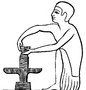 An illustration from the Encyclopaedia Biblica, a 1903 publication which is now in the public domain. Fig. 7 for article "Pottery". Image of a hand-turned potter's wheel, from Egypt circa 1800 B.C.